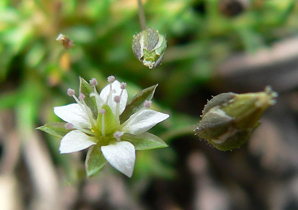 Minuartia rubella in avalanche chute SSW of the ski area in Lee Canyon, Spring Mountains, southern Nevada (elev. about 2900 m)